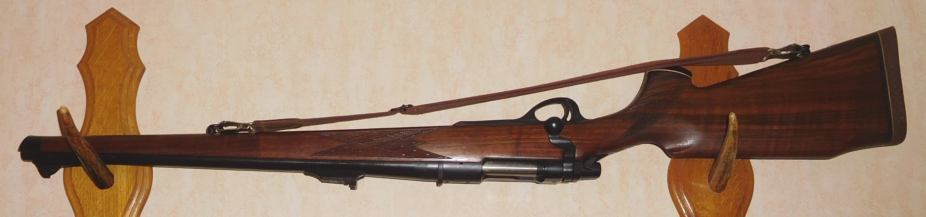 Remington Model 600 Mohawk, caliber .243 Winchester.